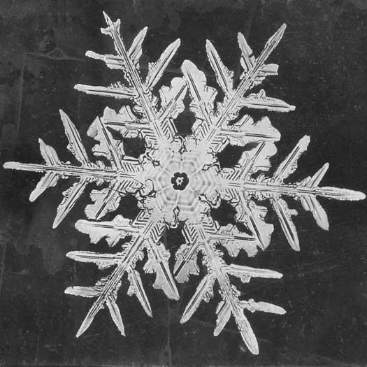 Type: Photographs Date: 1890 Image ID: RU 31 Box 12 Folder 17 Description: Wilson A. Bentley first became fascinated with snow during his childhood on a Vermont farm, and he experimented for years with ways to view individual snowflakes in order to study their crystalline structure. He eventually attached a camera to his microscope, and in 1885 he successfully photographed the flakes. This photomicrograph and more than five thousand others supported the belief that no two snowflakes are alike, leading scientists to study his work and publish it in numerous scientific articles and magazines. In 1903 Bentley sent prints of his snowflakes to the Smithsonian, hoping they might be of interest to Secretary Samuel P. Langley. Persistent URL:Link to data base record Repository:Smithsonian Institution Archives View more collections from the Smithsonian Institution.